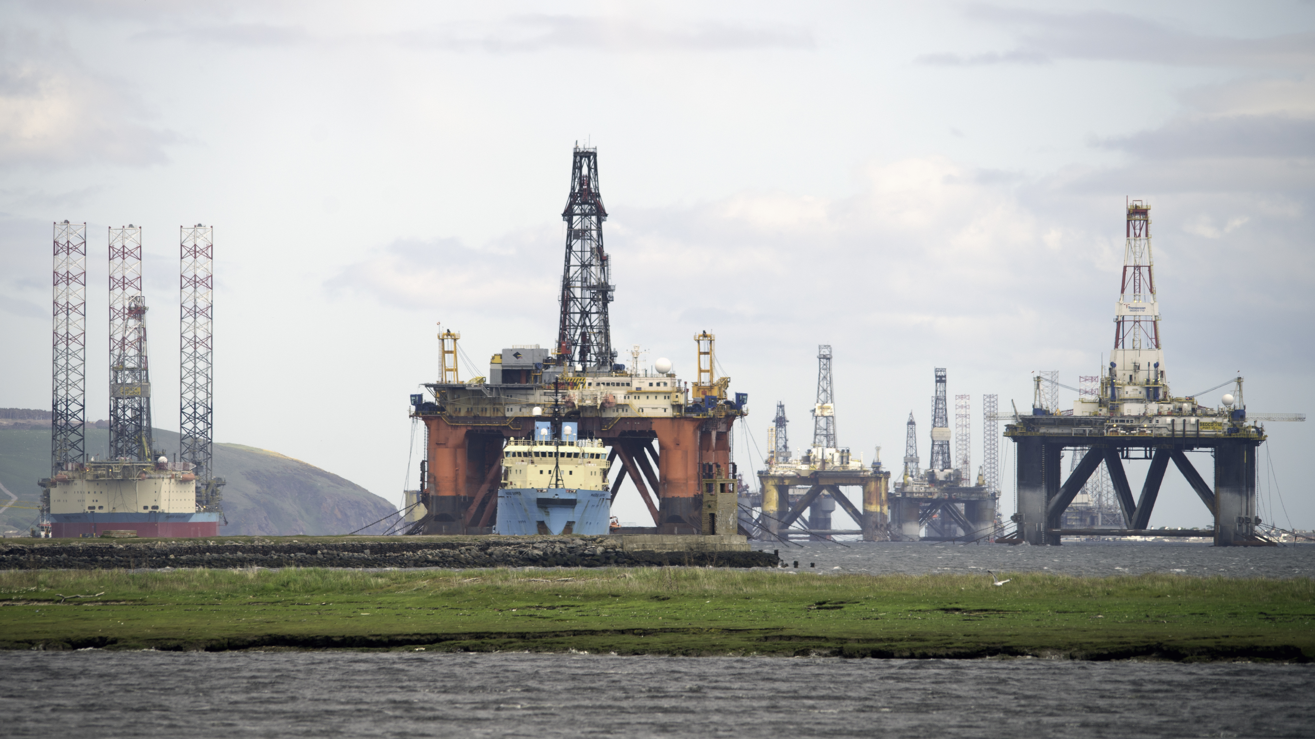 Offshore drilling rigs and a platform supply vessel lay idle on the Cromarty Firth, Scotland. New oil exploration and development of existing fields on the UK continental shelf has declined sharply since the start of the 2014 oil price slump. Many of the drilling rigs in this frame are "cold stacked"; an industry term used for assets that are preserved or mothballed, usually unmanned, until prospects of new drilling improve. More than 1,000 oil workers in North East Scotland have lost their jobs since the downturn began last year. Local businesses, from bars to taxis and hotels, have reported fewer customers. The property market, once on of the UK's most buoyant, is reversing direction. Other oil cities across the globe, such as Houston, Stavanger and Perth are also facing similar plights.